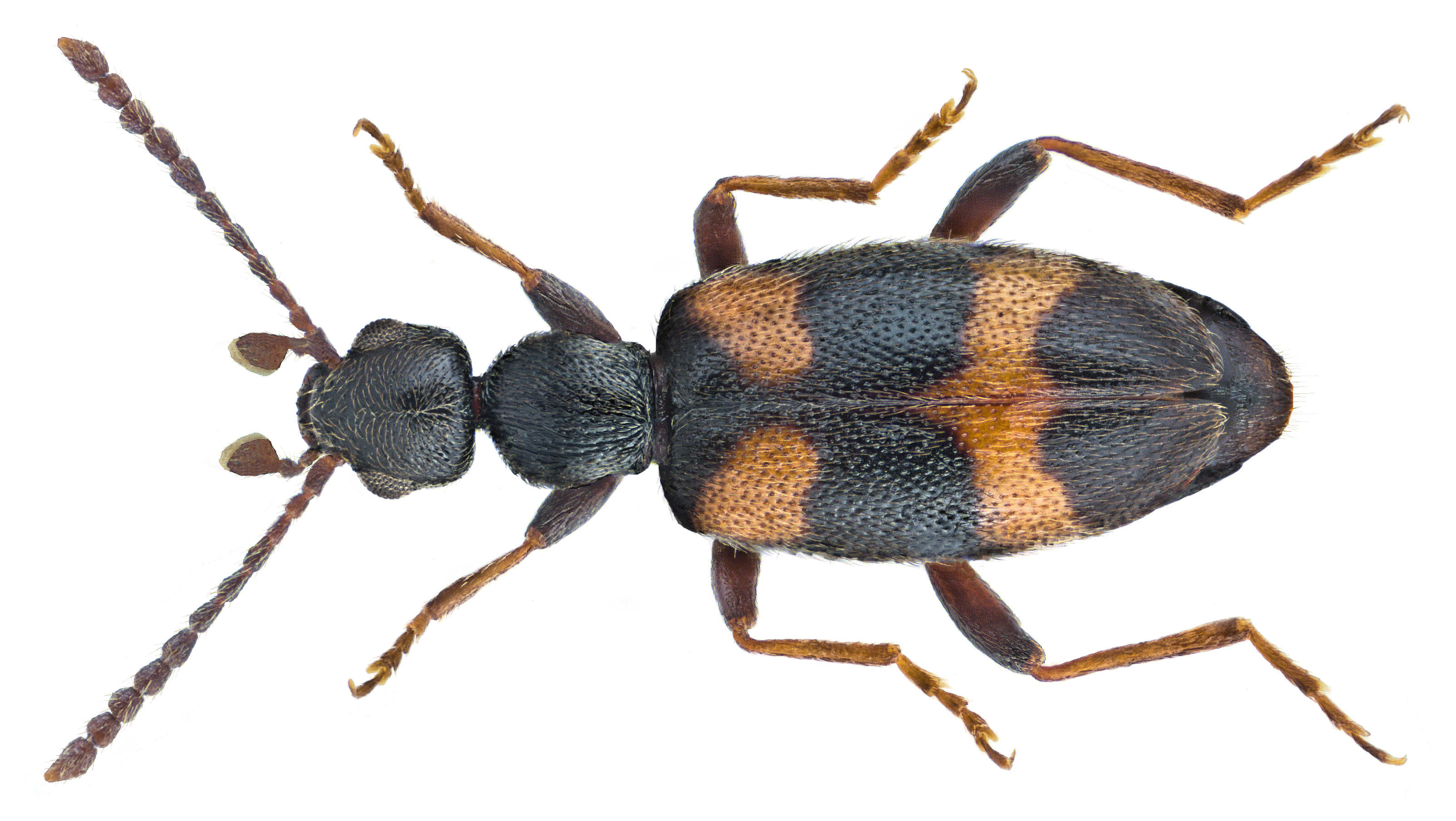 Family: Anthicidae Size: 3,6 mm Distribution: South Europe Location: Yugoslavia, Croatia, Rabac leg. U.Schmidt, 11.VII.1977; det. G.Uhmann, 1978 Photo: U.Schmidt, 2015